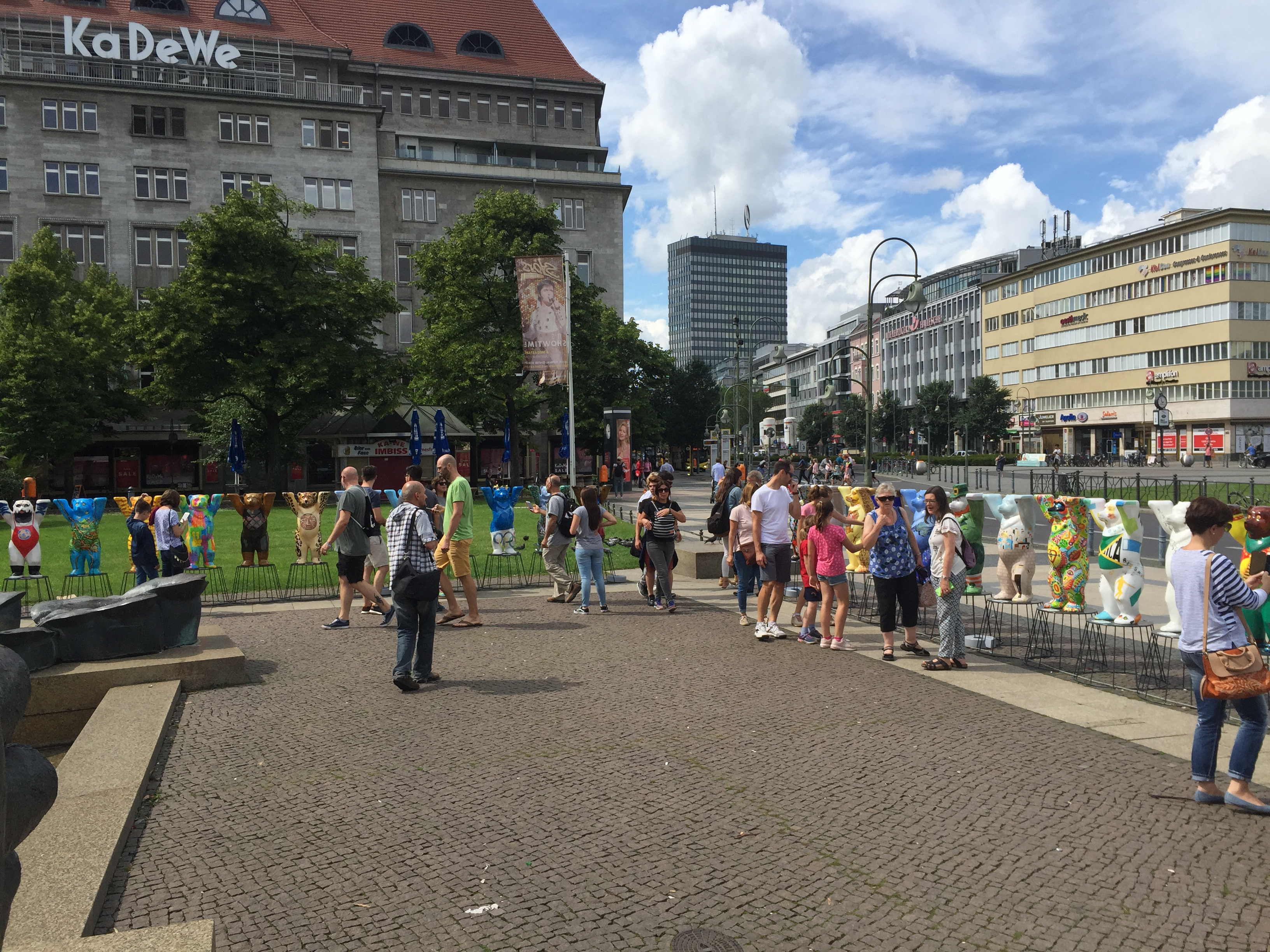 United Buddy Bears - The Minis, Wittenbergplatz Berlin